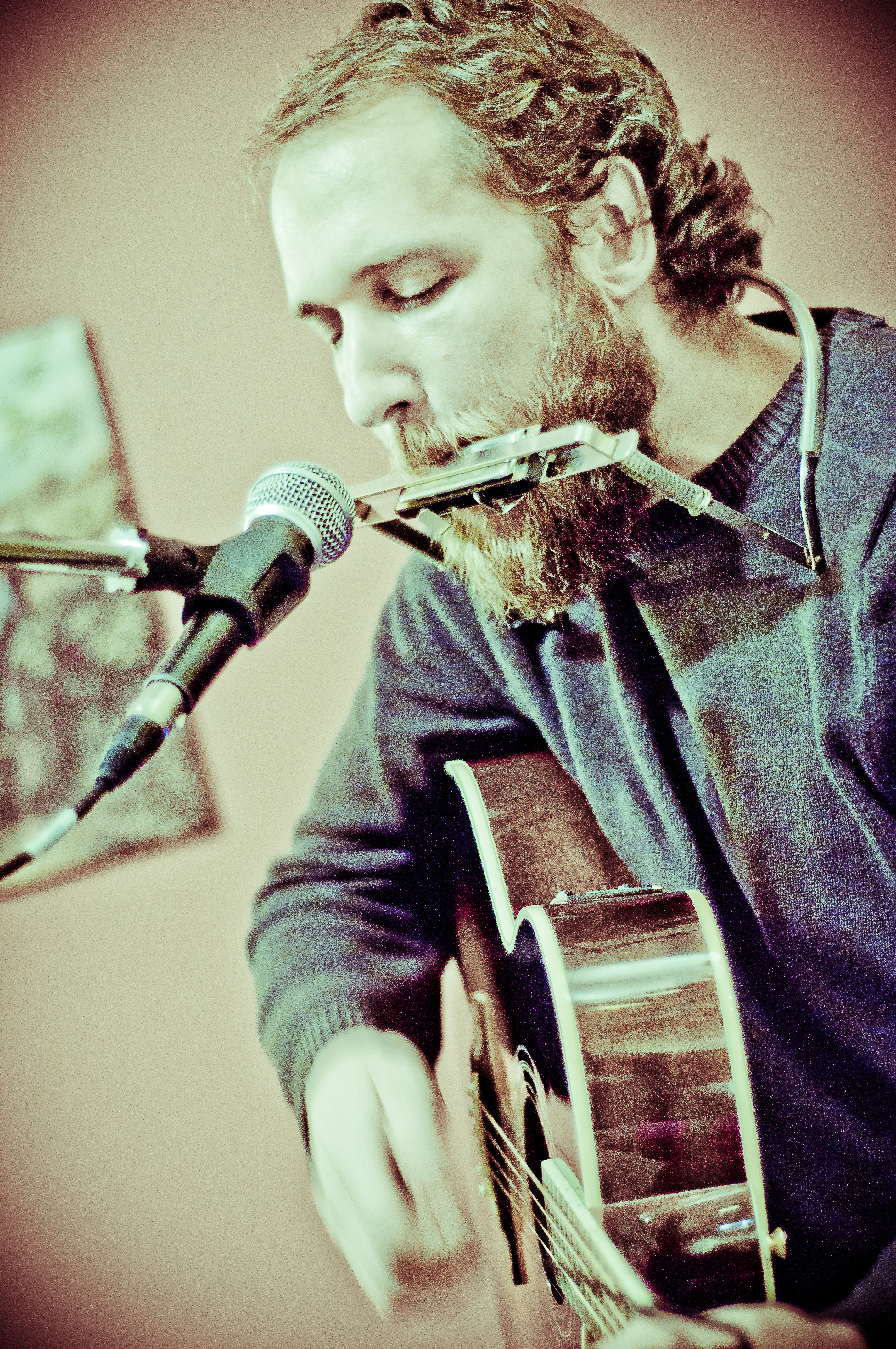 for more information please visit